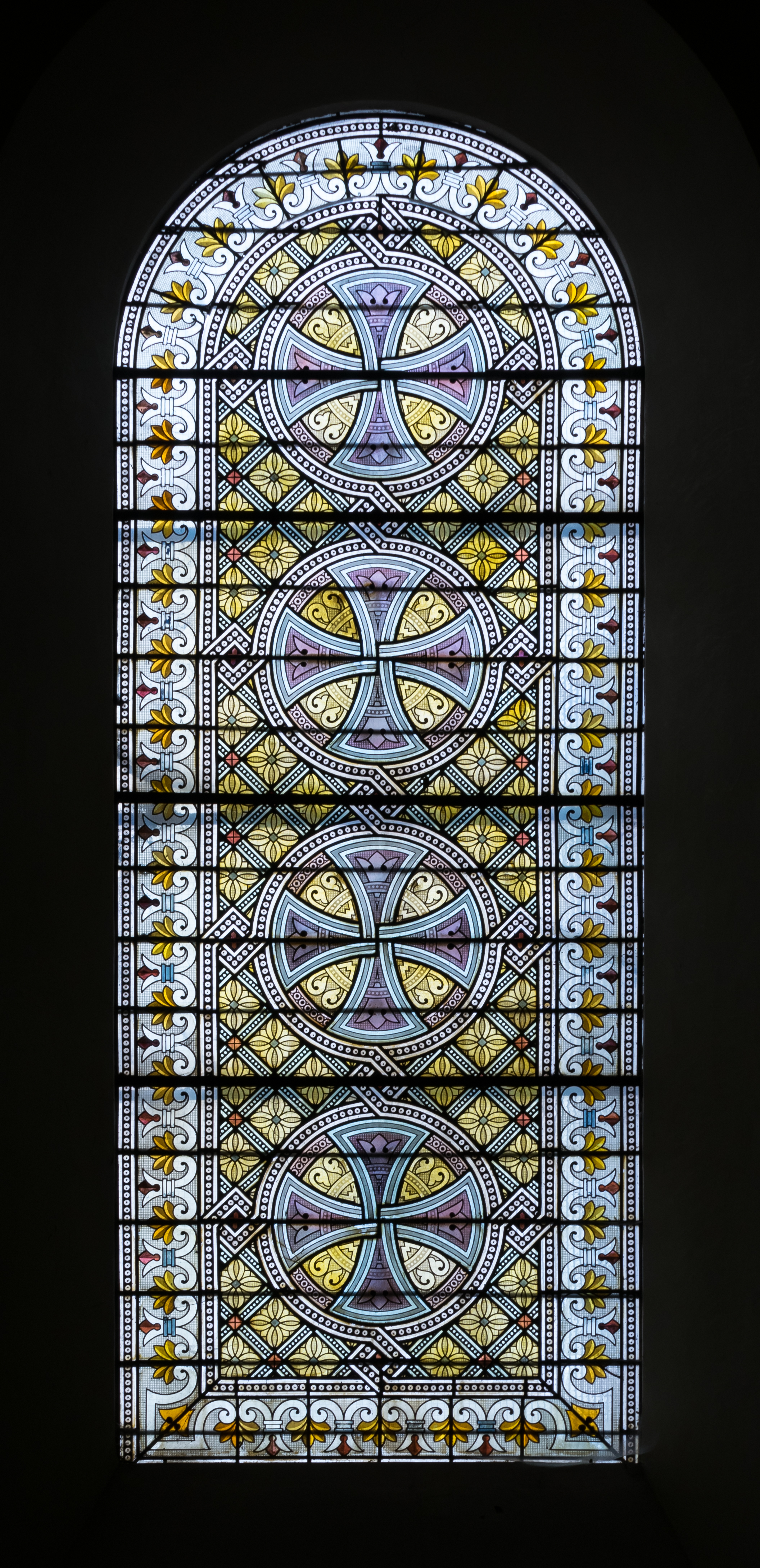 Stained-glass window of the church of the Sacred Heart of Rodez, Aveyron, France .